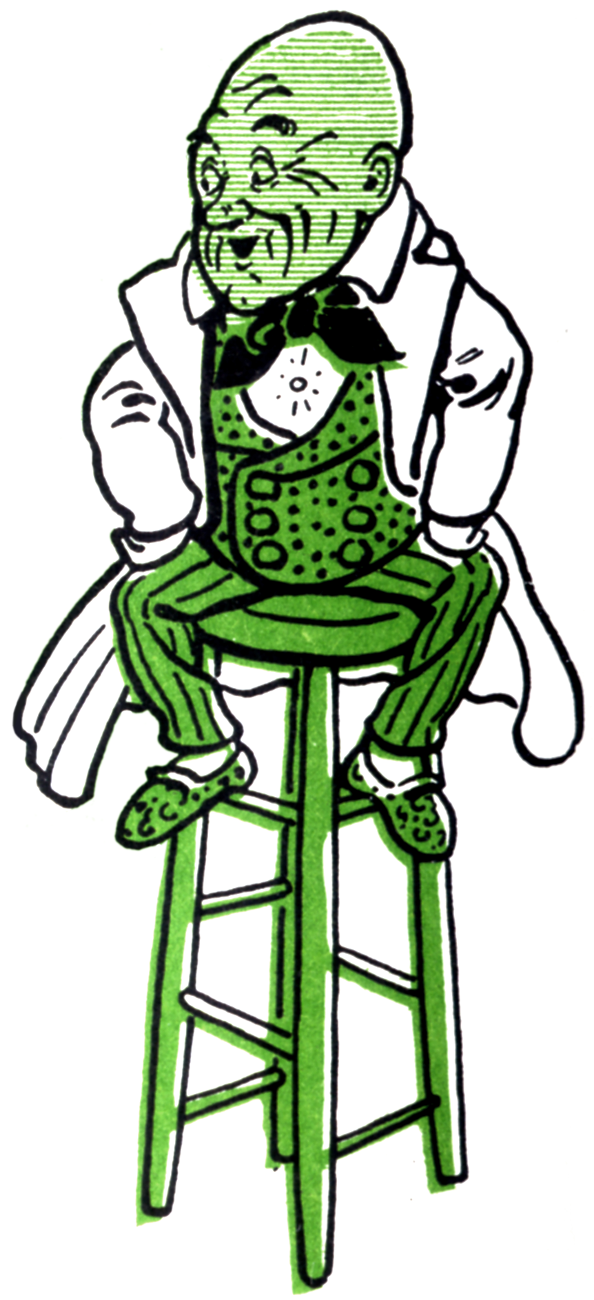 The Wizard of Oz as pictured in The Wonderful Wizard of Oz by L. Frank Baum